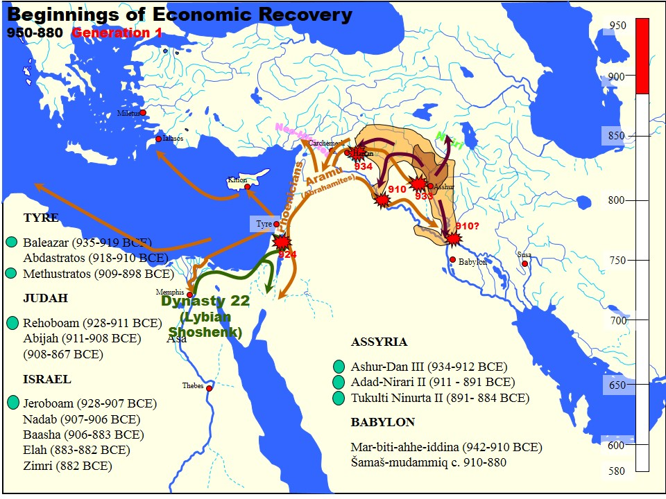 Assyria in the reign of Adad-nirari II. Early stage of Middle East Economic Recovery